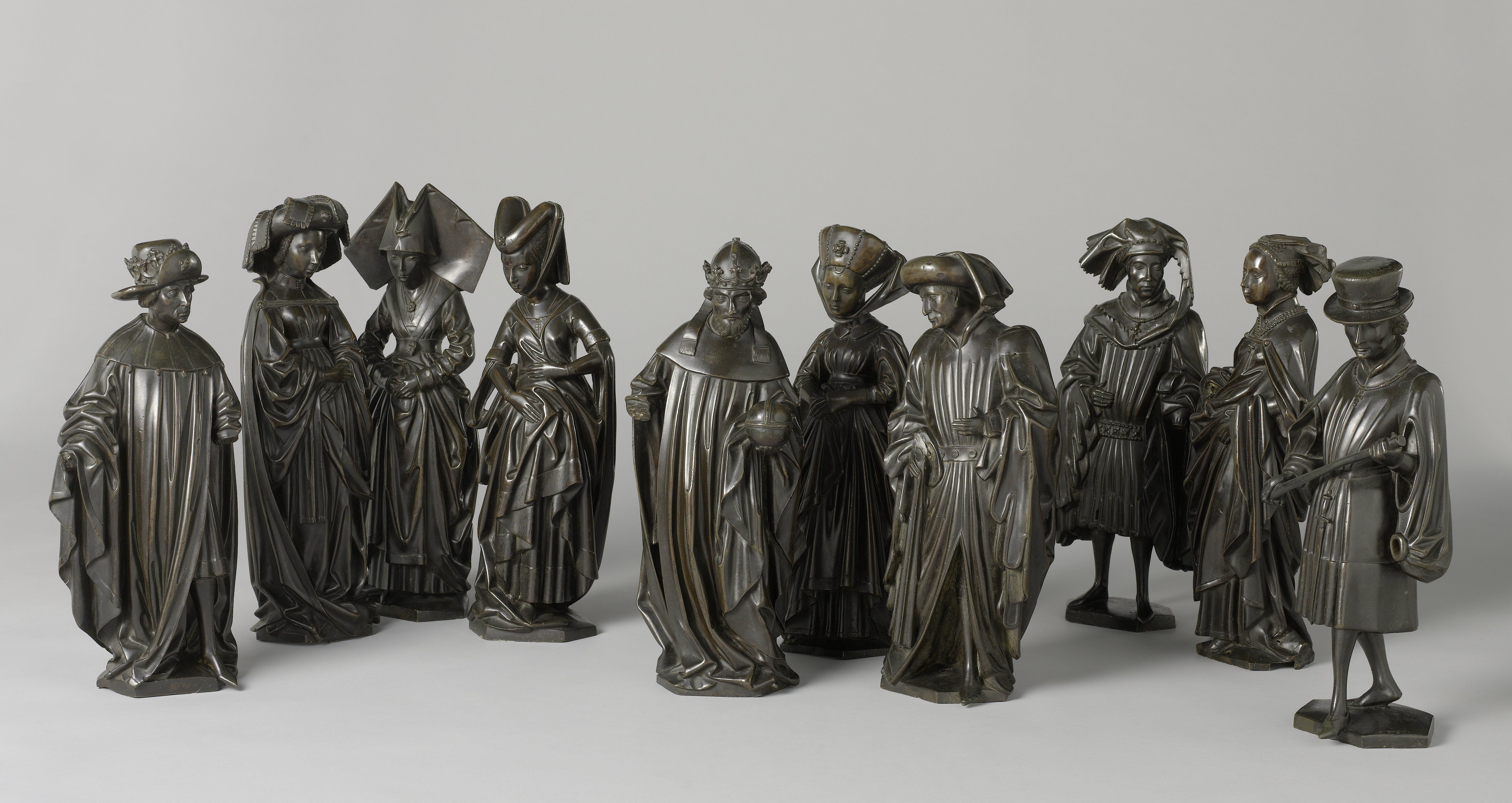 10 of the 24 bronze "pleurants" that were part of the tomb of Isabella of Bourbon, placed in the Saint Michael's abbey of Antwerp in 1476. They have been attributed to the sculptors Renier van Thienen and Jan Borremans II. Now in the Rijksmuseum, Amsterdam.